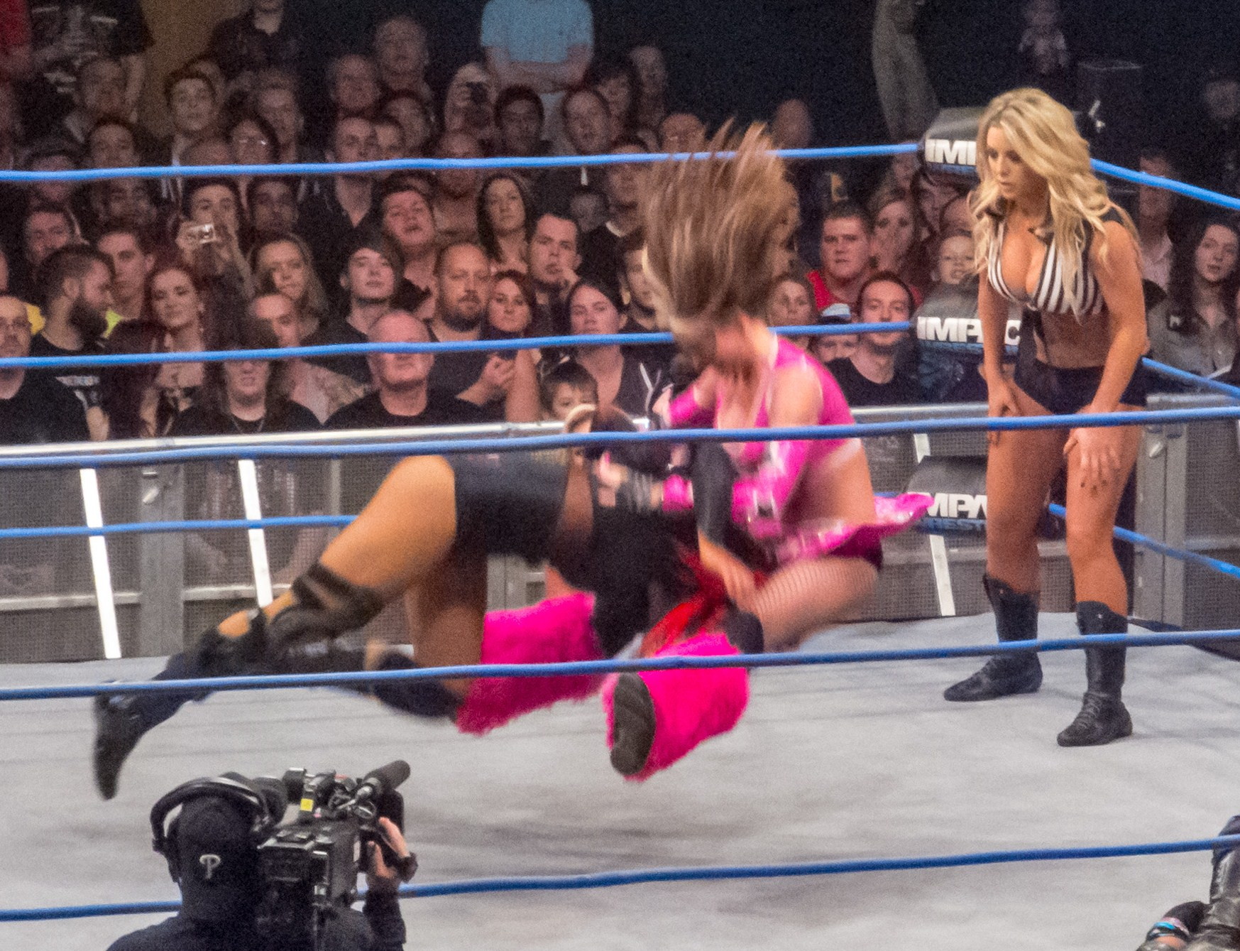 Velvet Sky hits an at In Yo' Face sitout facebuster on Tara at the Impact! TV Tapings in Wembley, England on January 26, 2013.